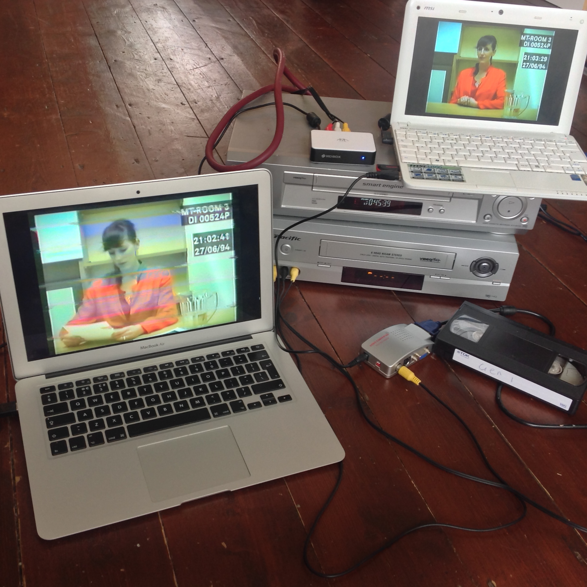 Footage from the 2015 video game Her Story being input through two VHS players, prior to its implementation in the game. This was done in order to accurately represent the time period of 1994.